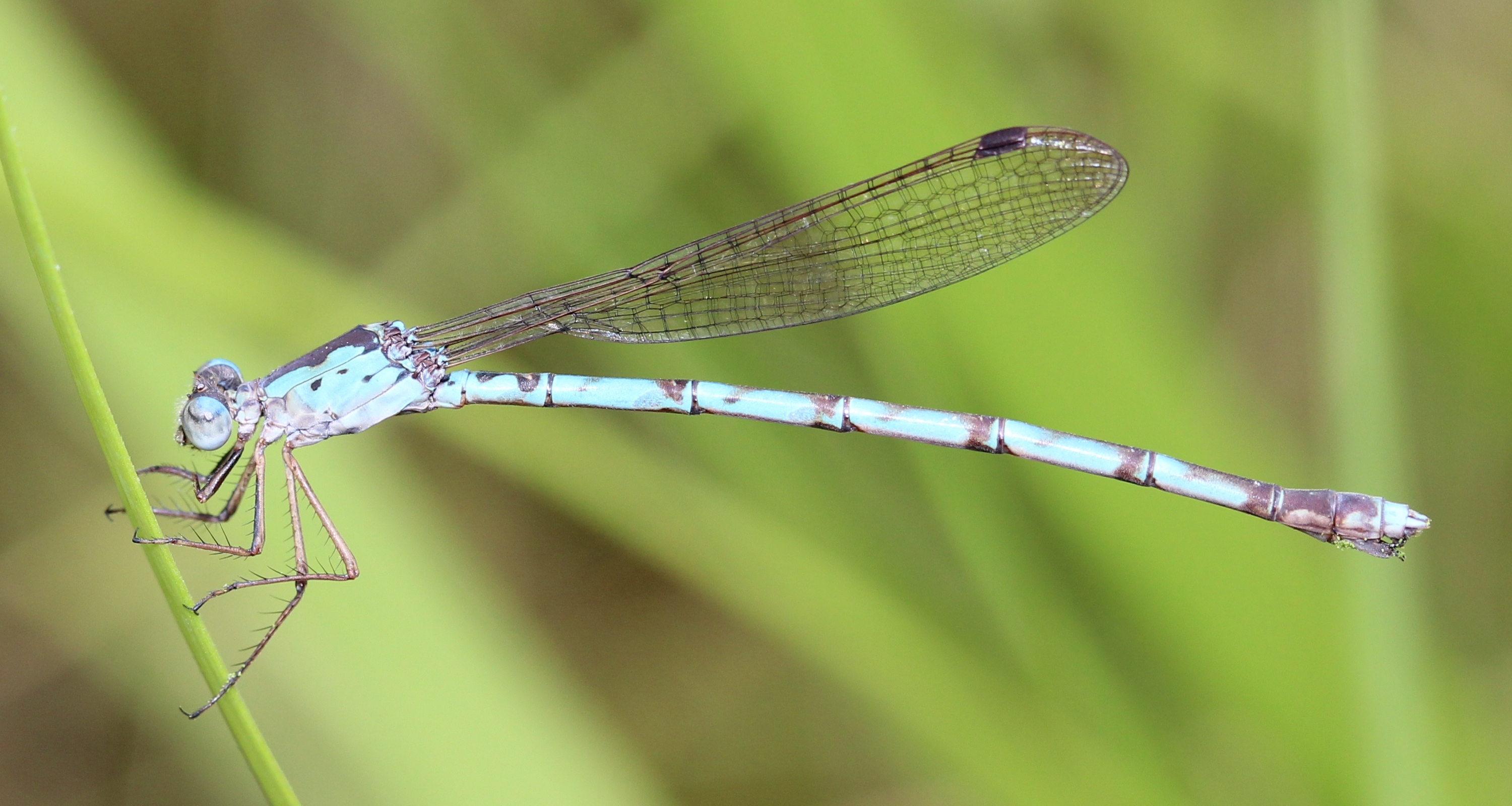 Indolestes peregrinus, female in Japan.